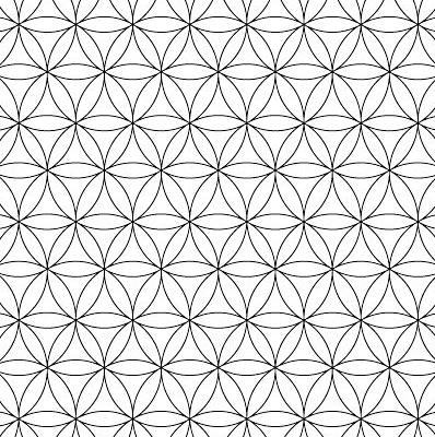 intersecting circles with centers on a regular triangular grid, 6 circles intersect at each point